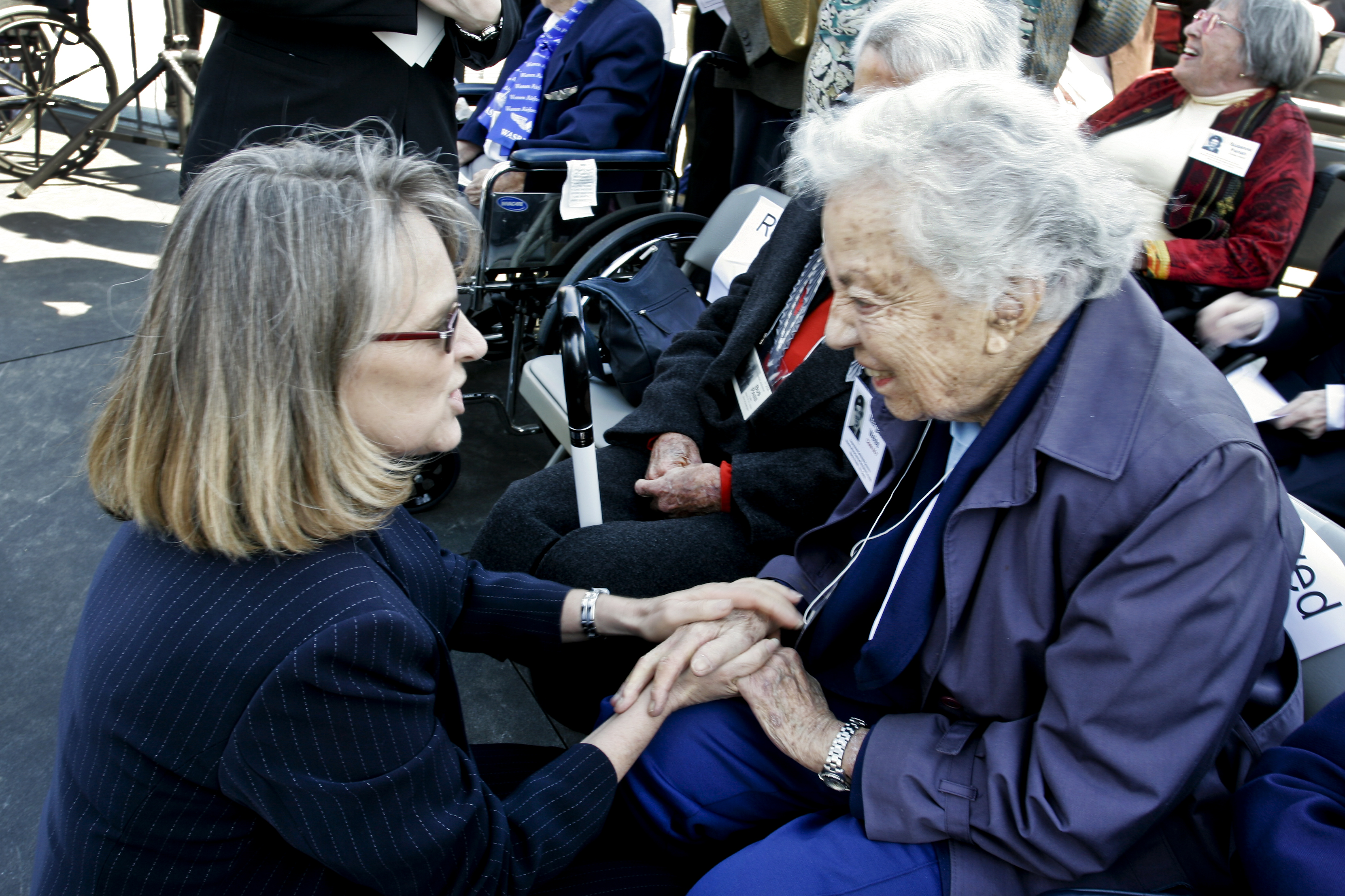 Margaret Weiss, a former World War II pilot who flew with the Women Airforce Service Pilots from Class 44-7, receives comments of gratitude during the wreath-laying and remembrance ceremony for all 1,102 women in the group at the Air Force Memorial in Arlington, Va., March 9, 2010.